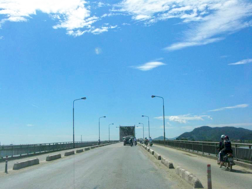 Bến Thủy Bridge crossover Lam River. The North end of this bridge is in Vinh City, Nghe An province. The South end is in Ha Tinh province.